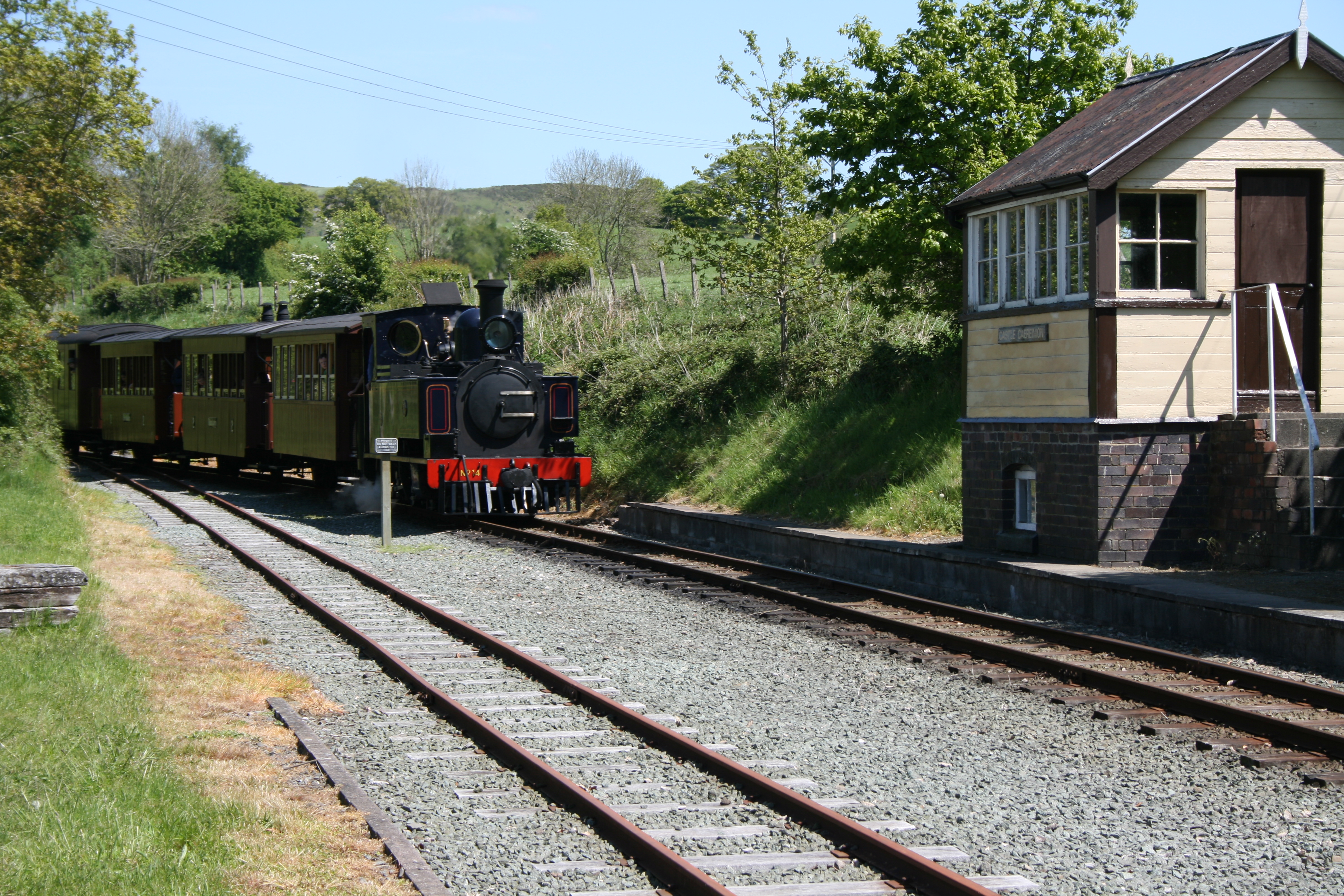 W&LLR train with engine No 14 arriving at Castle Caereinion.